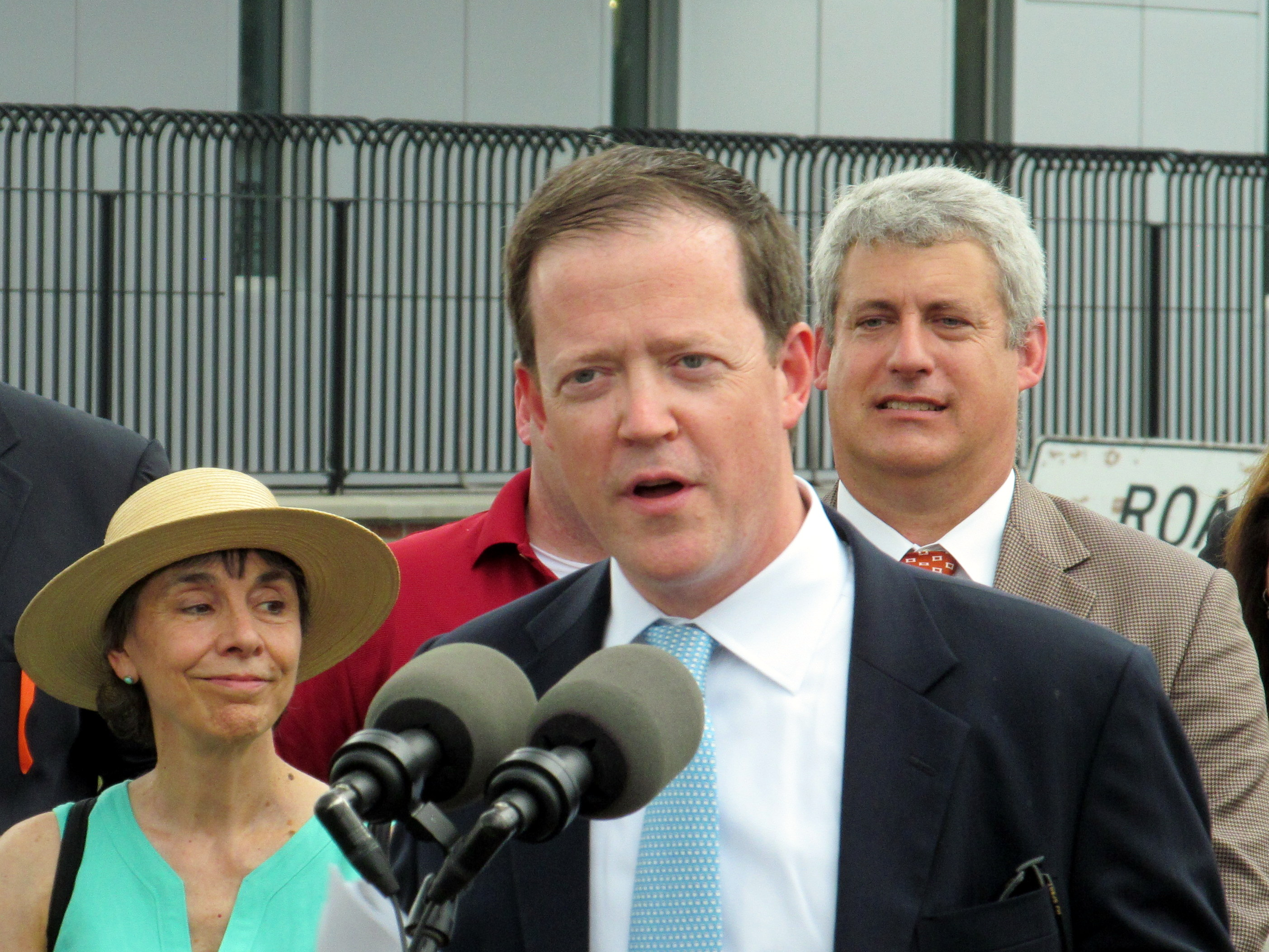 MassDOT Secretary Rich Davey speaks at the opening of Assembly MBTA station in September 2014. Massachusetts House Representative Denise Provost is at left of photo.